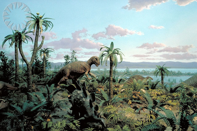 SI Neg. 77-9346. Date: 1977...Jurassic Diorama, Dinosaur Hall, National Museum of Natural History ..Credit: Alfred F. Harrell (Smithsonian Institution)